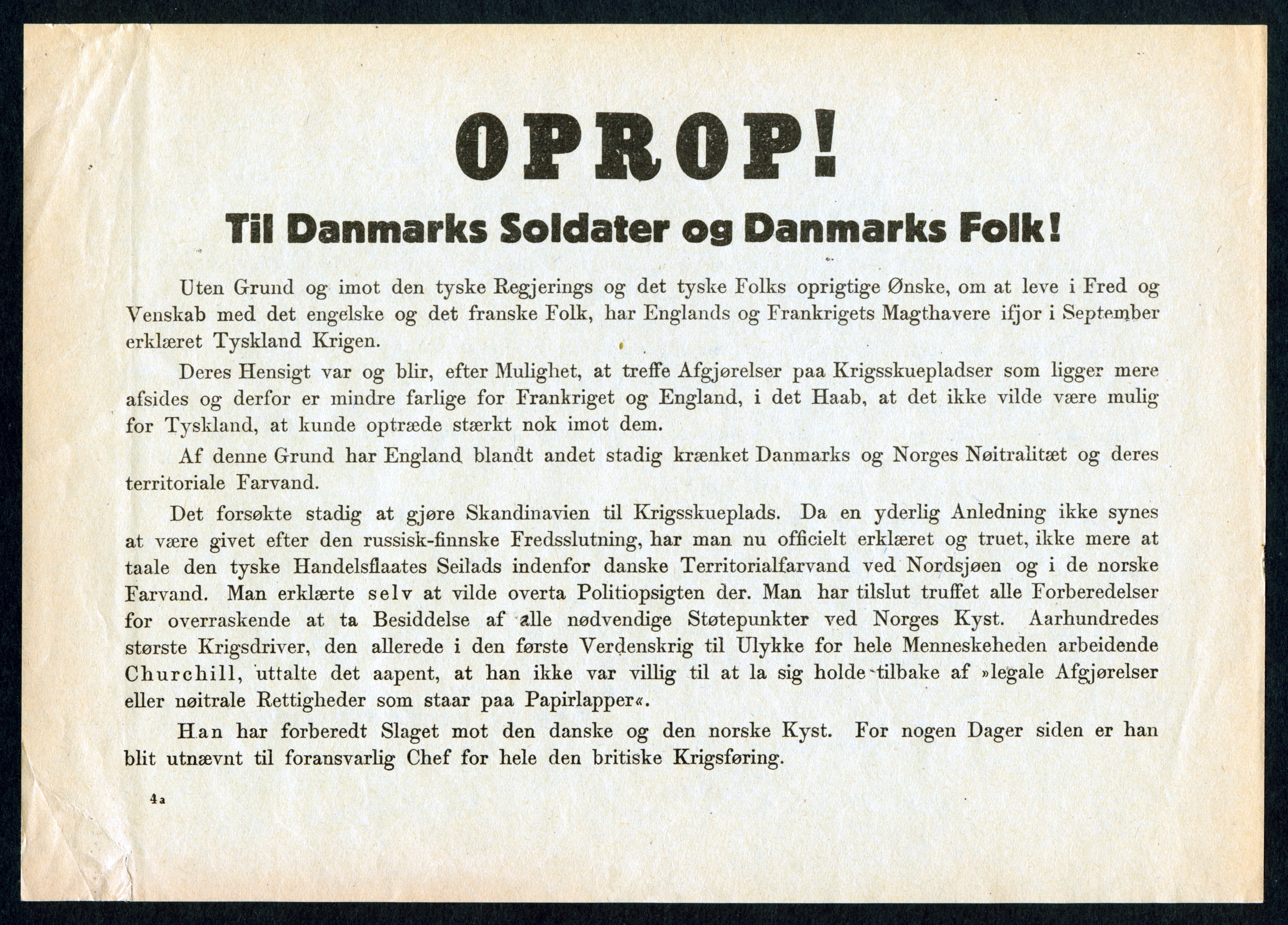 The 9th of April 1940 was a shitty day for the Danish Kingdom, who woke up to the harsh reality that the "non-aggression pact" the mighty German neighbour so generously had granted the little people was all but a lie. The war had finally come to the land of fairy tales, and Denmark was at war for the first time since the disastrous "War of 1864" (it was a civil-war, but you get the point). It's probably the single most known piece of paper in the Denmark and it's from my fathers collection of war stuff. He was 16 at the end of the war. Had the war lasted a year or two longer, he would likely have been subject to enforced conscription in the German Army (SS), since the Danish army had been dissolved in 1943. This is the front-side of a leaflet dropped from a Nazi-German aircraft bomber on the day of invasion. The Danish government capitulated later the same day...